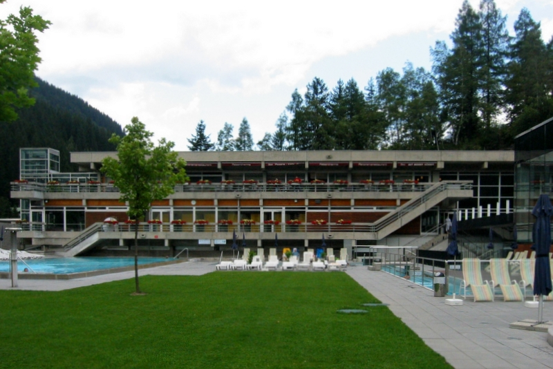 Felsentherme (Rock Baths) in Bad Gastein